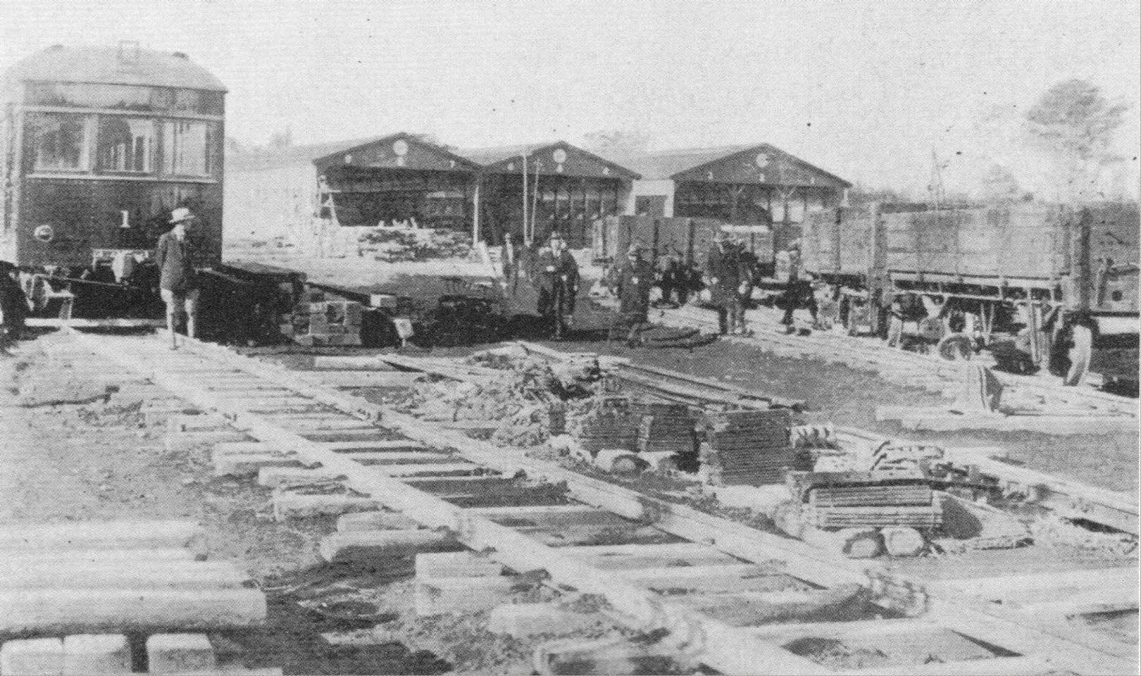 Odawara Express Railway Kyodo Depot